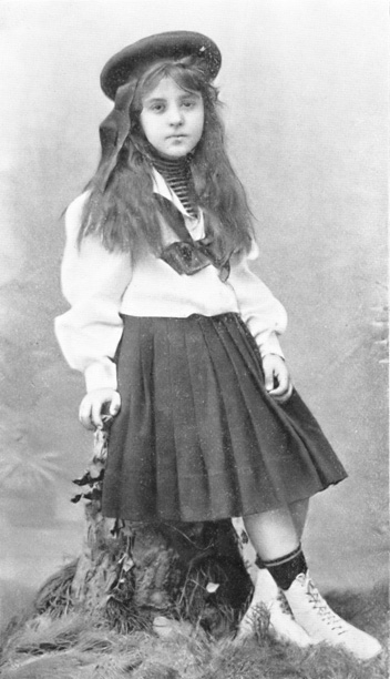 7-year old girl. Photo from the book Der Körper des Kindes und seine Pflege by Carl Heinrich Stratz